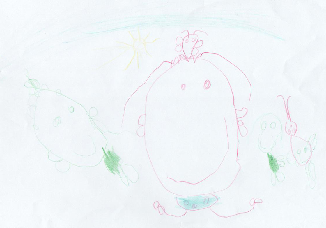 Self portrait of a 3 year old girl